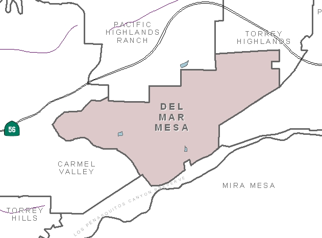 Map of Torrey Highlands. Downloaded from the City of San Diego website, on March 12, 2007. Image is in the public domain, as indicated by the disclaimer of the website of the City of San Diego, found here: An excerpt: Unless a copyright is indicated, information on the City of San Diego Web site is in the public domain and may be reproduced, published or otherwise used with the City of San Diego's permission. We request only that the City of San Diego be cited as the source of the information and that any photo credits, graphics or byline be similarly credited to the photographer, author or City of San Diego, as appropriate.